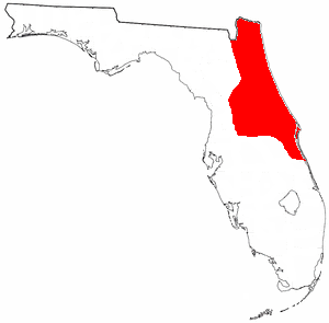 Map of the approximate area covered by the St. Johns archaeological culture in Florida